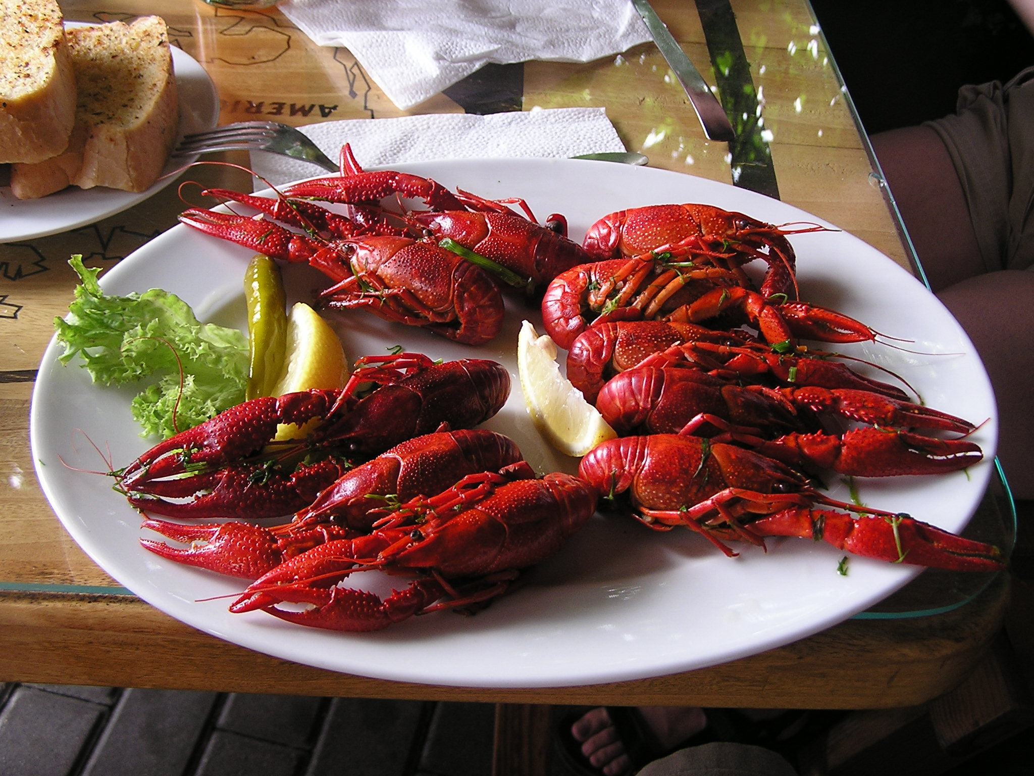 Boyled crayfish. Taken in 2005 in Jastarnia, Poland